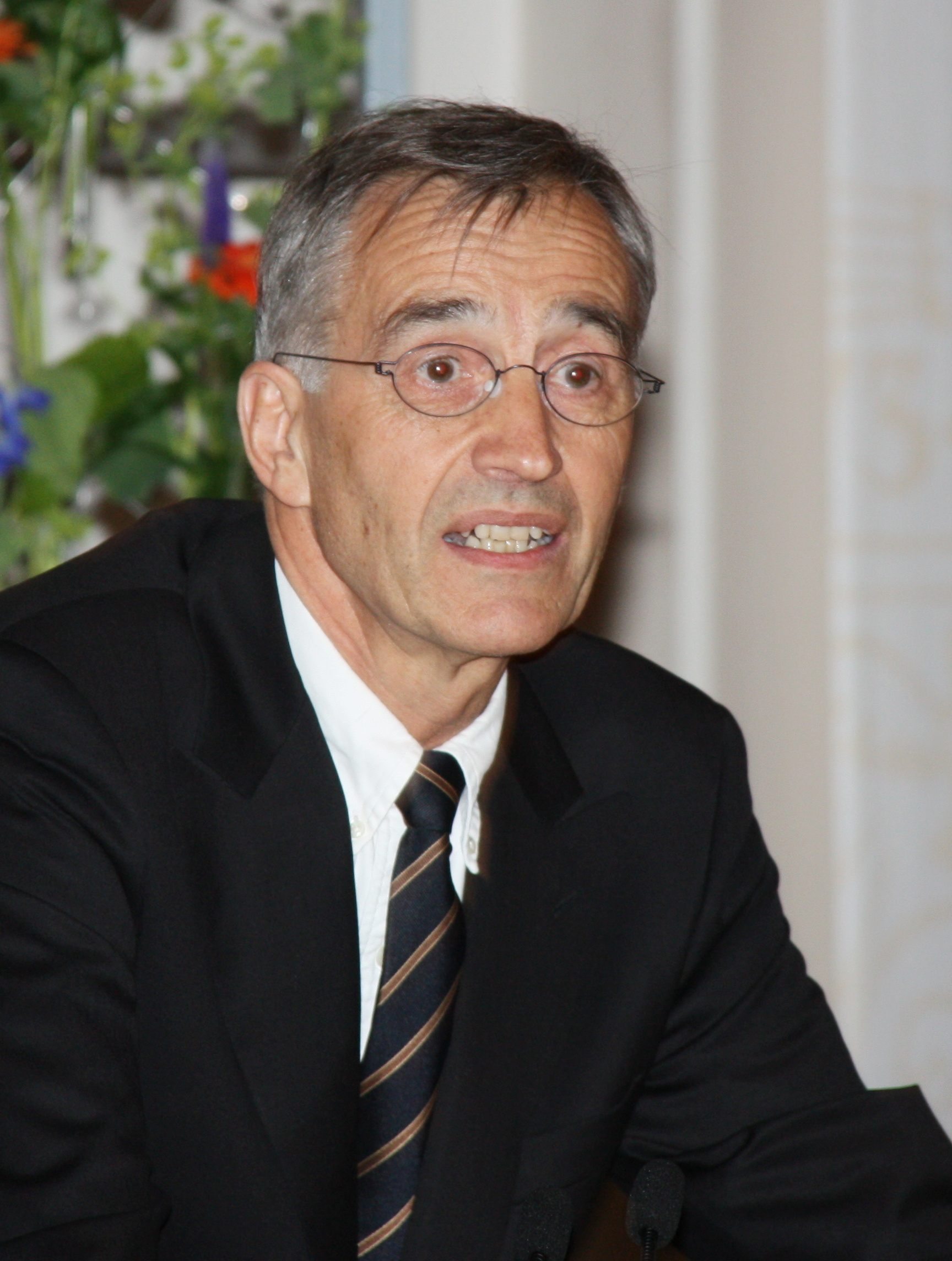 Tilmann Maerk